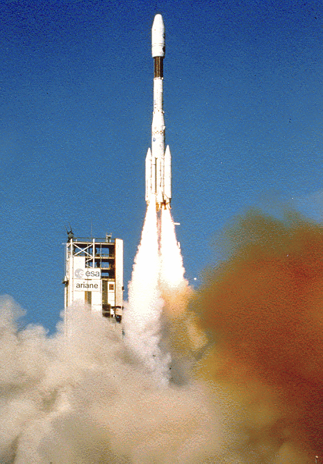 Launch of first Ariane IV rocket on June 15, 1988 for Arianespace. This, the twenty-second Arianespace flight, placed three satellites into orbit for three different customers. Arianespace seized the global lead in launching commercial payloads soon after its creation in 1980, and has maintained that lead to the present.